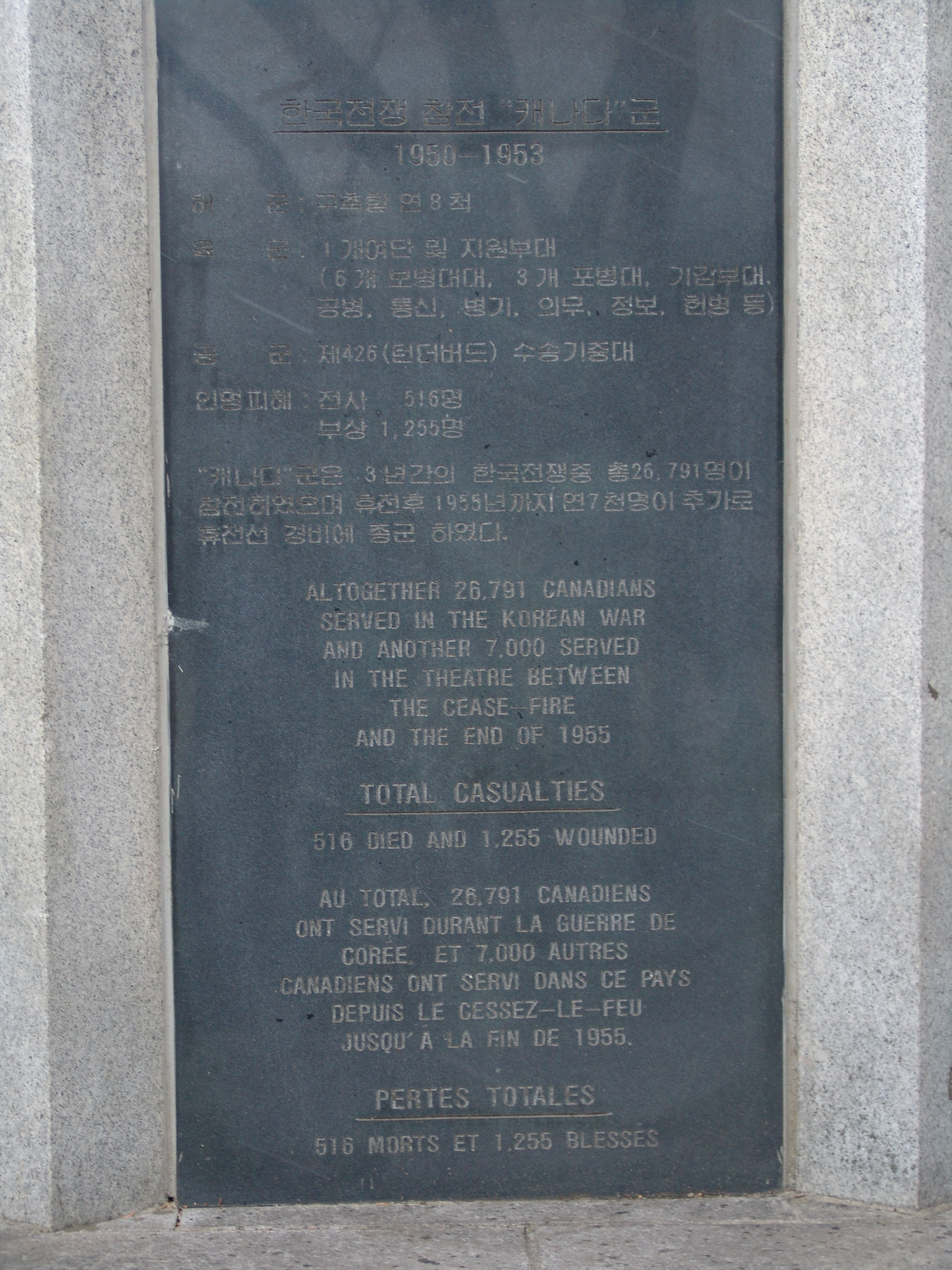 The middle panel of the second monument to the Canadian contribution during the Korean War at the Gapyeong Canada Monument. I took the picture.